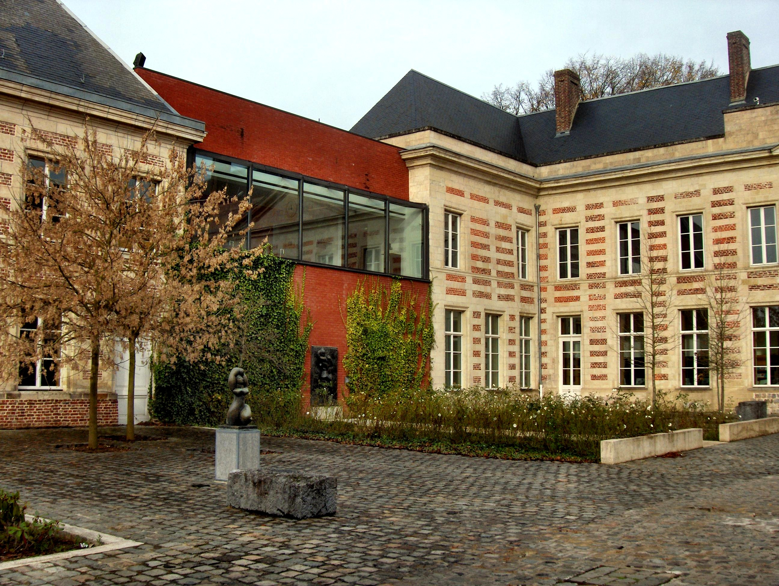 Musée Matisse, Le Cateau-Cambrésis, France